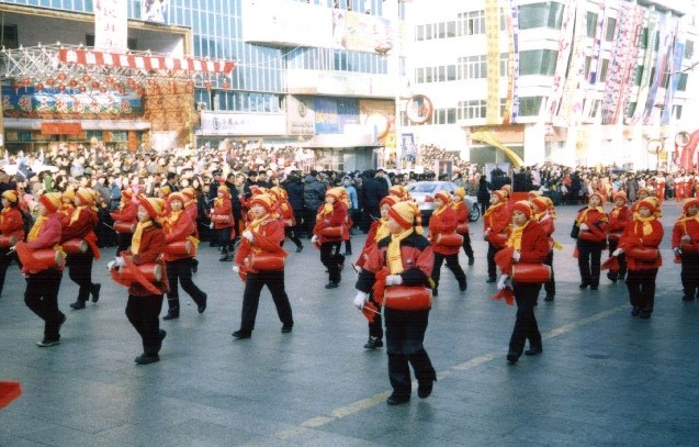 Shyangyashan - New years parade 2002